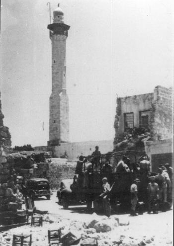 Lydda mosque after Operation Danny, July 1948